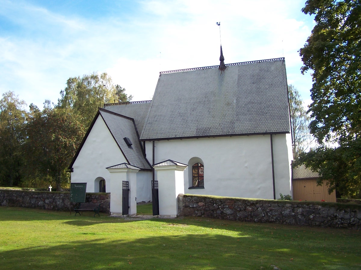 Alnö old church, Sundsvall, Sweden